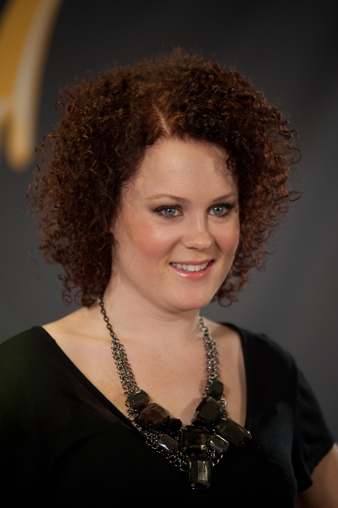 Julia Alvgard 2010 at a press conference for Melodifestivalen 2011